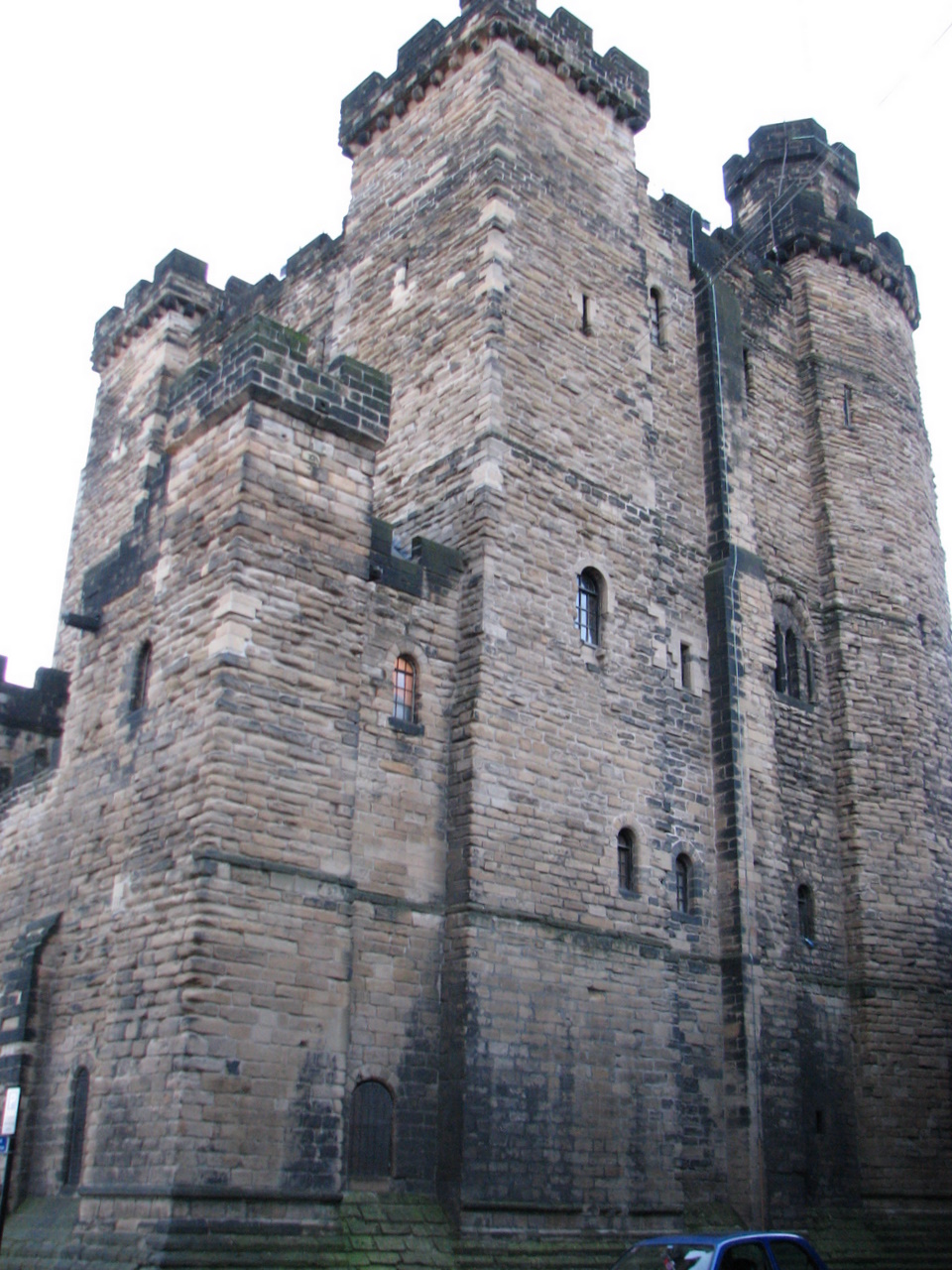 Newcastle Castle